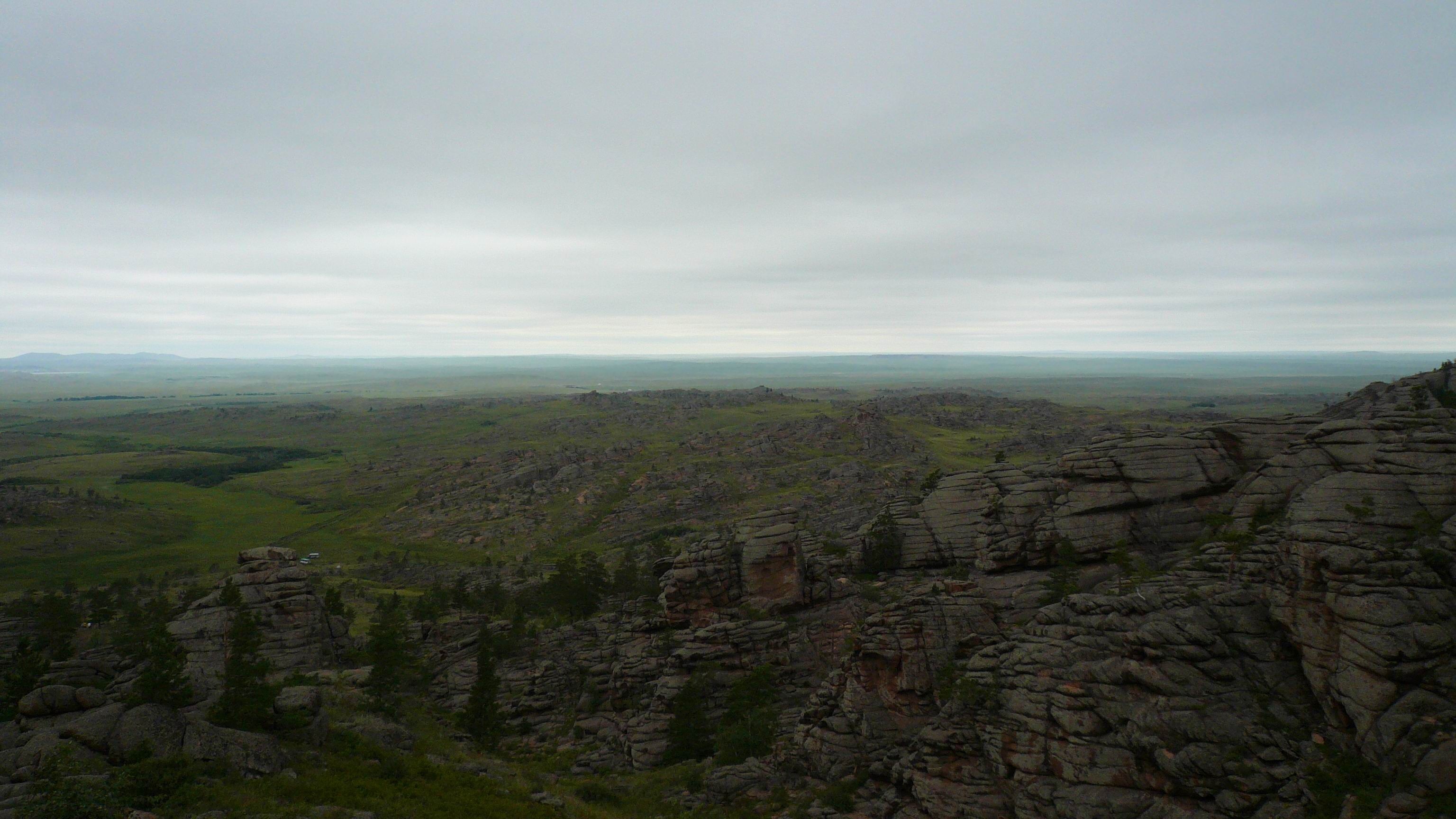 Landscape of Bayanaul taken on the way to Sacred Cave